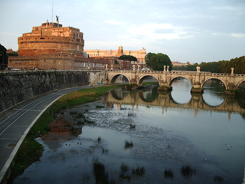 The Castel Sant'Angelo looms in the background as I stand on a bridge overlooking the Tiber River in Rome, Italy.